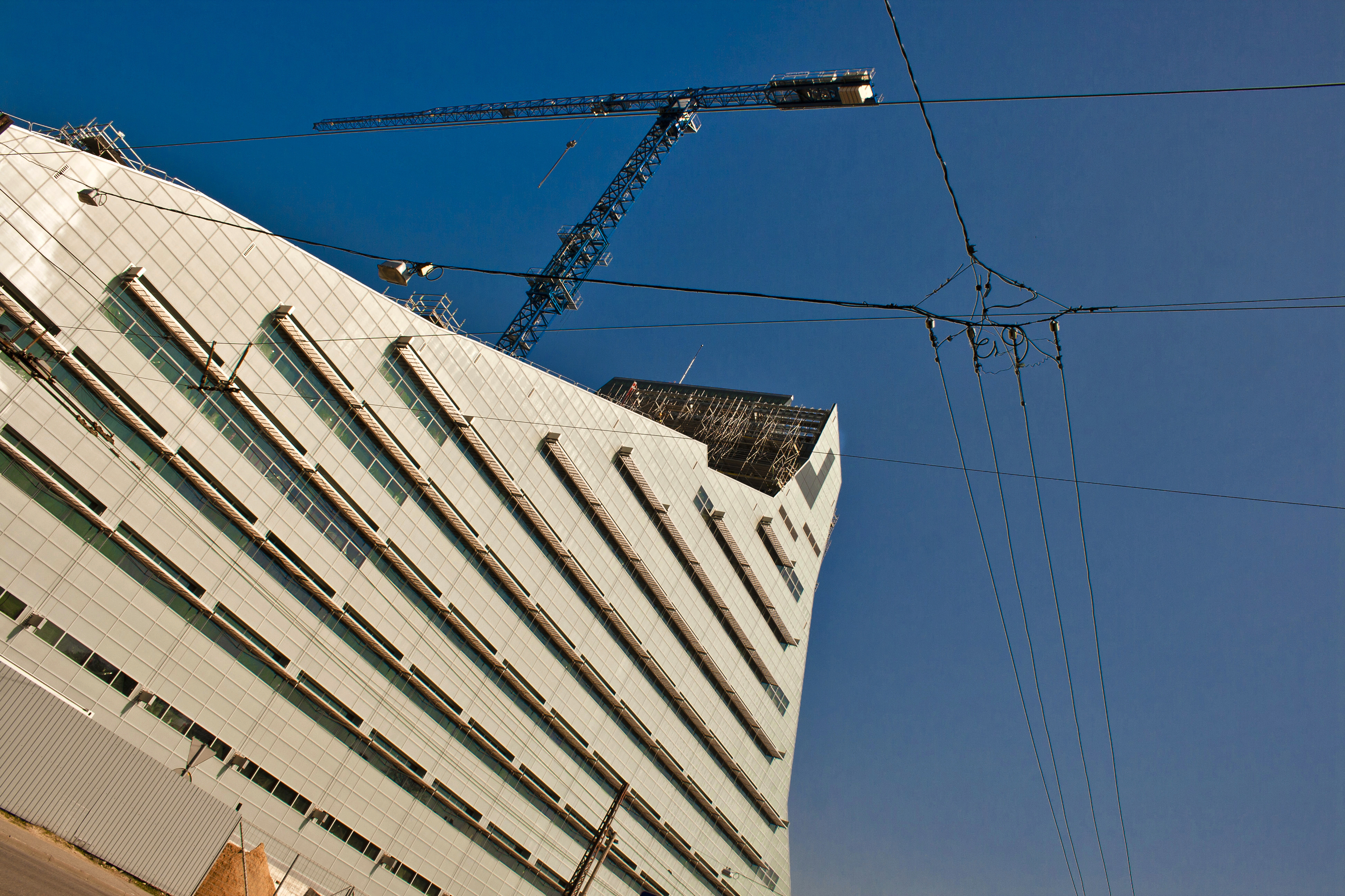 construction of Latvian National Library